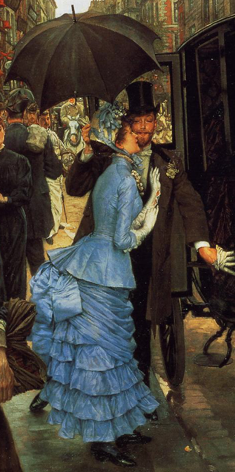 Detail of The Bridesmaid